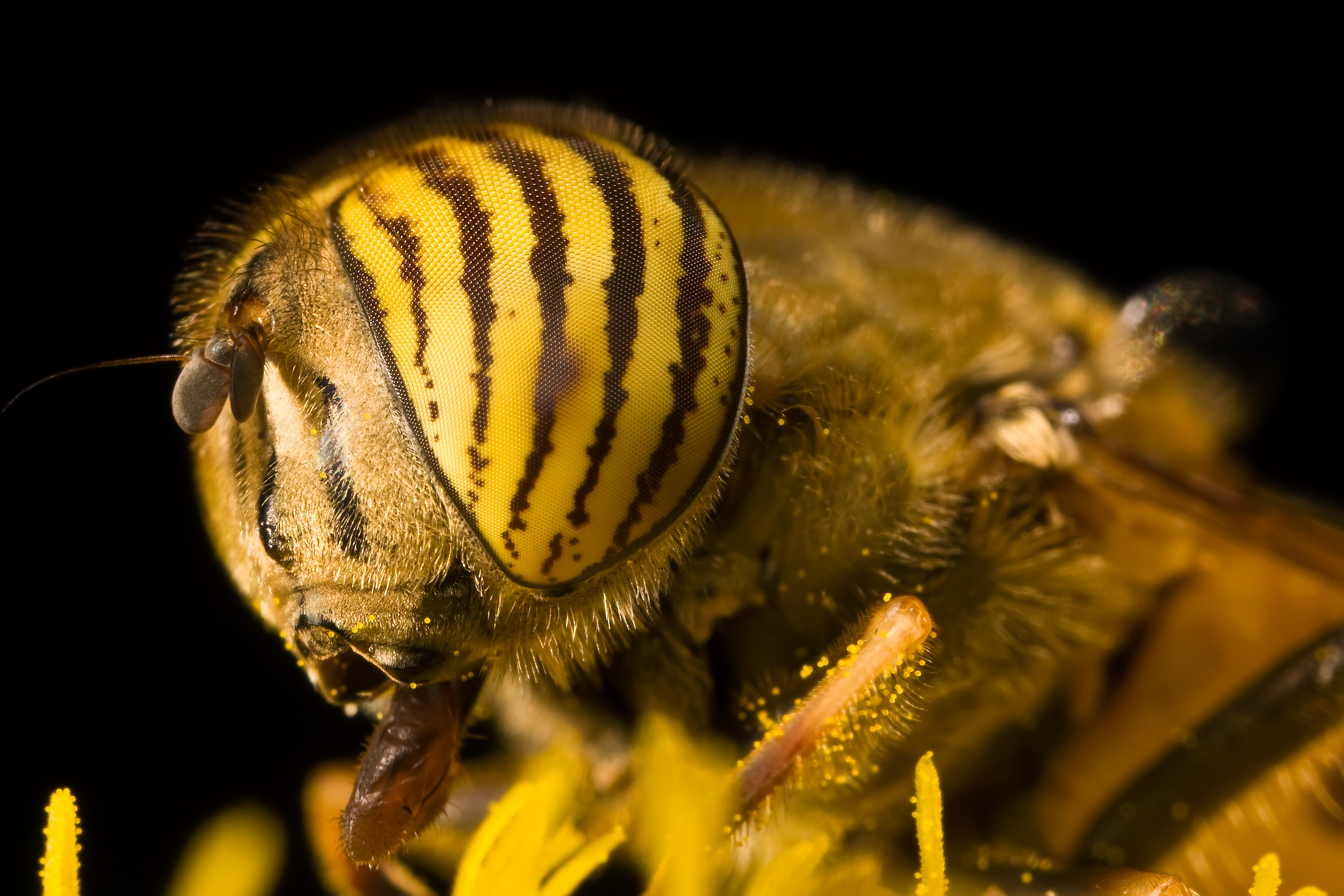 A Branded Eye Drone (Eristalinus taeniops) shot at 2.5 times life size with a Canon MPE-65mm macro lens.